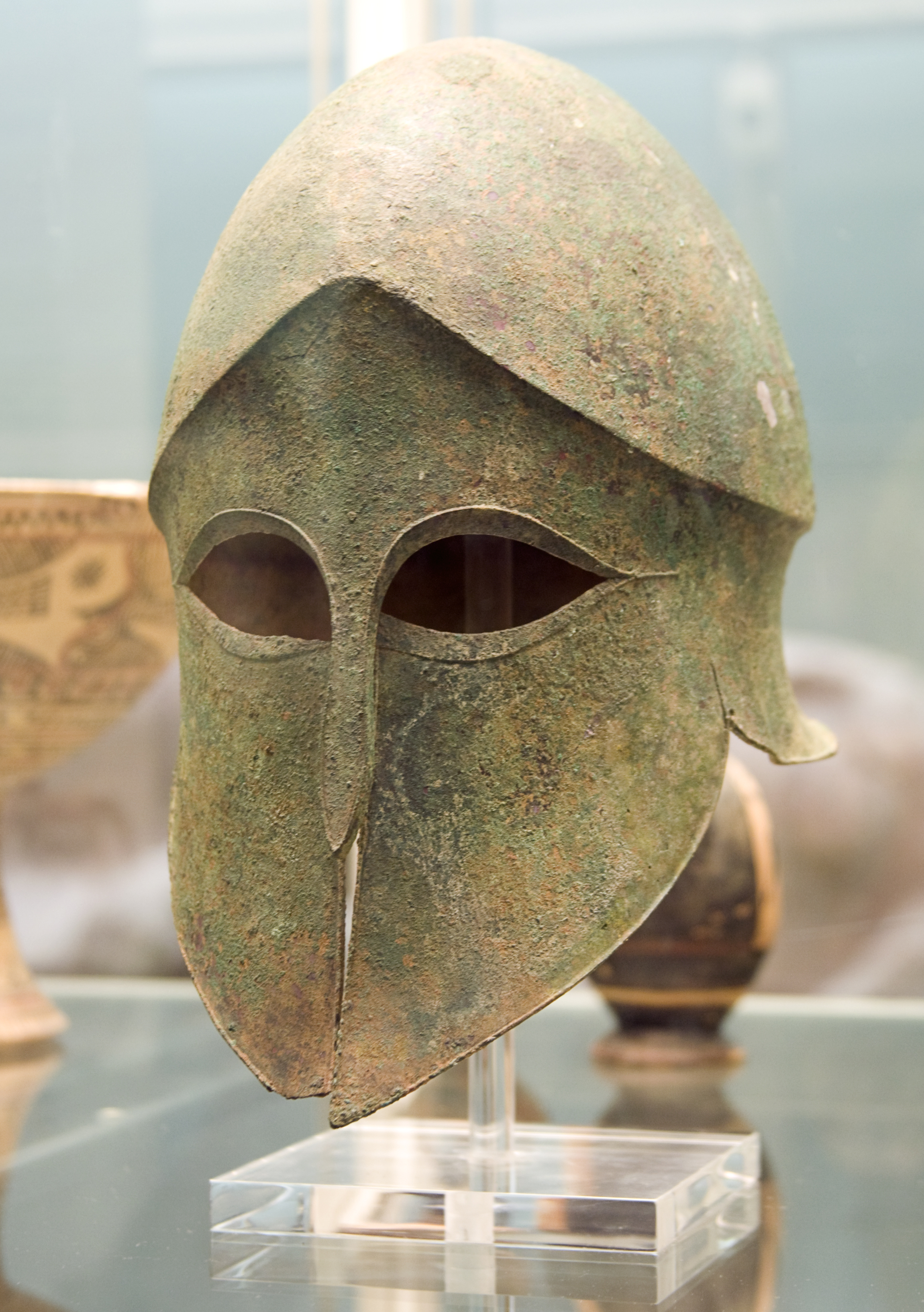 British Museum, Corinthian style helmet. Greek, bronze, around 500 BC. Perhaps made at Corinth, but found there. Tag on exhibit states: "Bronze Helmet of Corinthian type. Greek, perhaps Corinthian, about 500 BC. From Corinth. GR 1873.9-10.1 (Bronze 2818)"